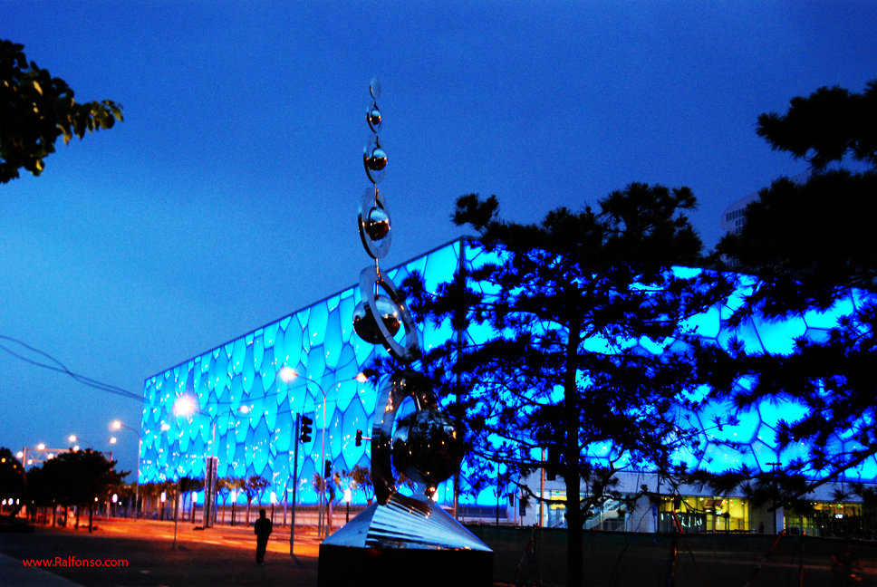 Kinetic sculpture. Permanent installation at the Olympic Park for the Olympic Games 2008 in Beijing China. Marine Grade Stainless Steel, highly polished, 33ft tall with base. Dance with the Wind is a kinetic sculpture which is designed for the outdoors, where it literally dances with the wind.